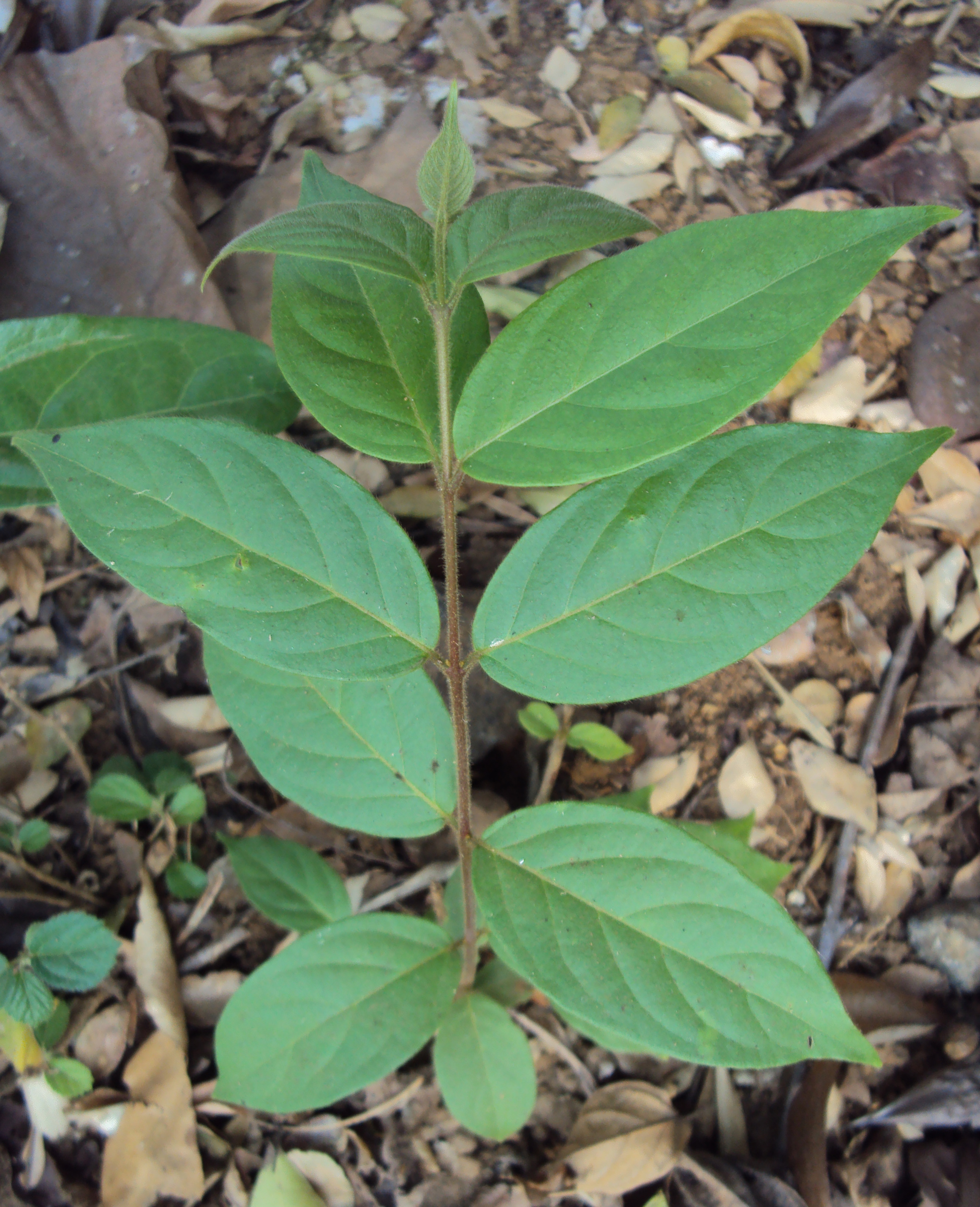 പുല്ലാഞ്ഞി -Calycopteris floribunda